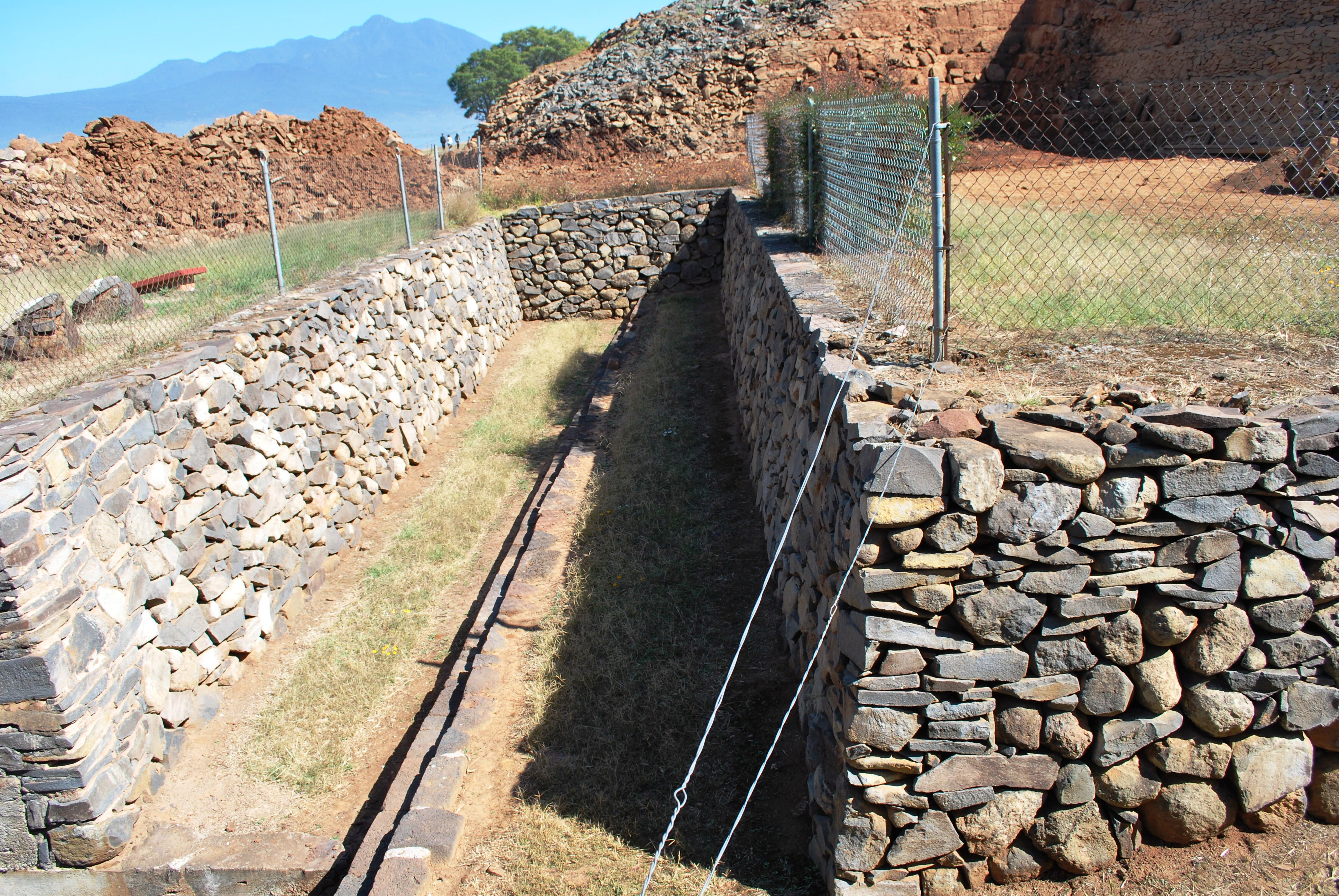 Part of pit dug between yacata pyramids 4 and 5 to show earlier phases of the ruins at Tzintzuntzan